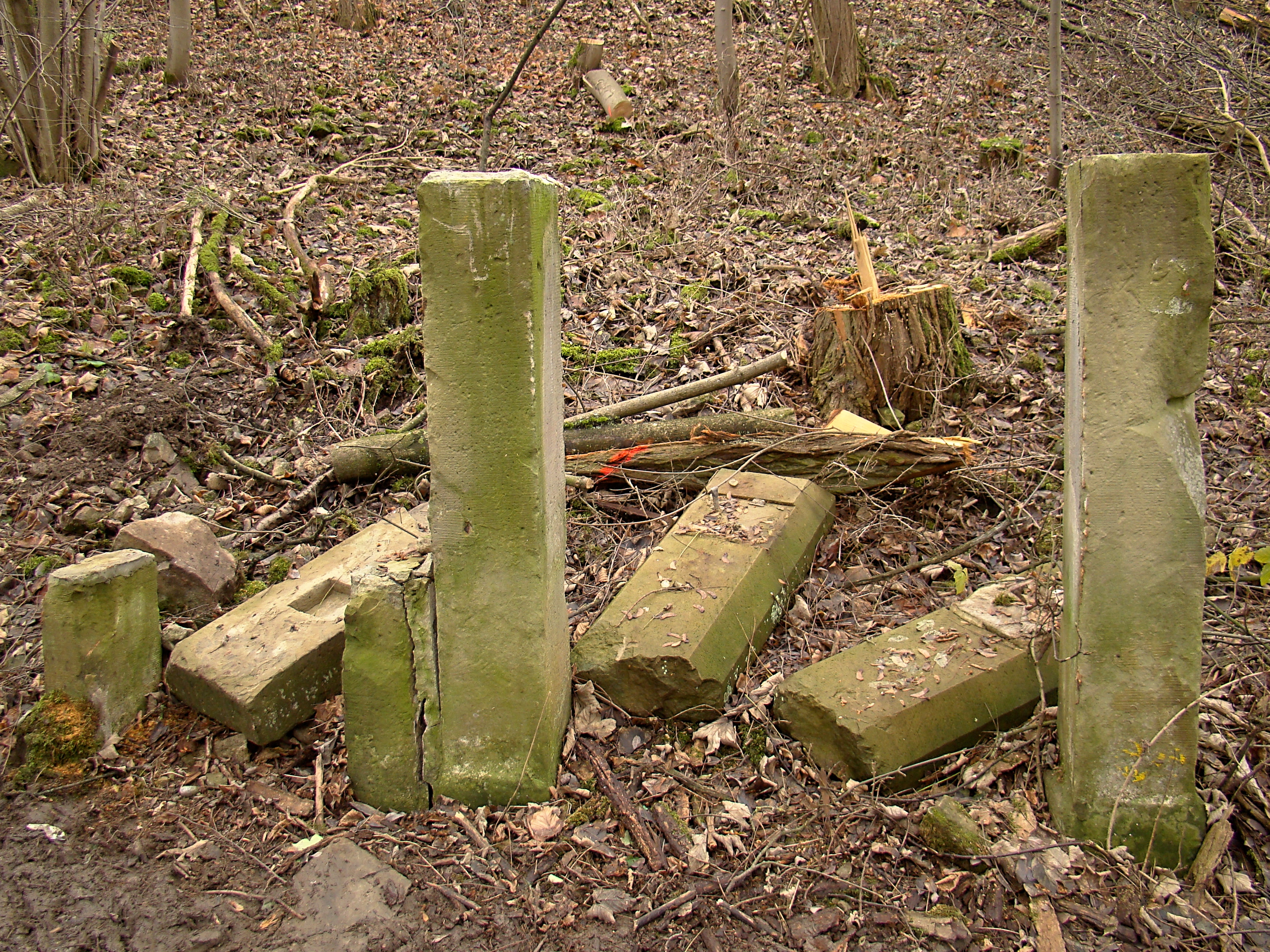 Old stone resting bench southeast of Vaihingen an der Enz